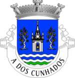 A-dos-Cunhados - Torres Vedras Emblem